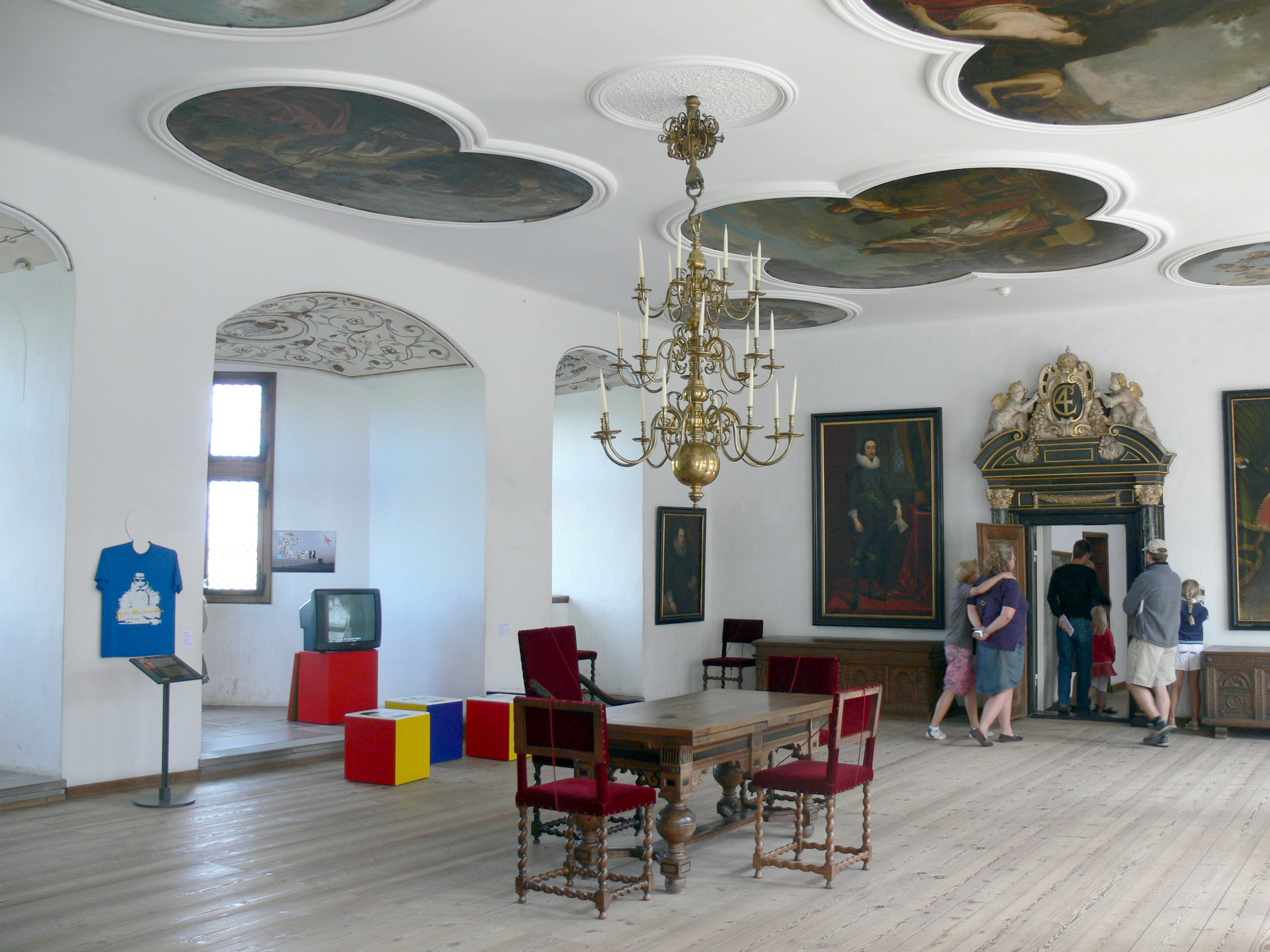 Kronborg castle. Room of king Frederik II. ( 1576 ), restored by king Christian IV ( 1629 )